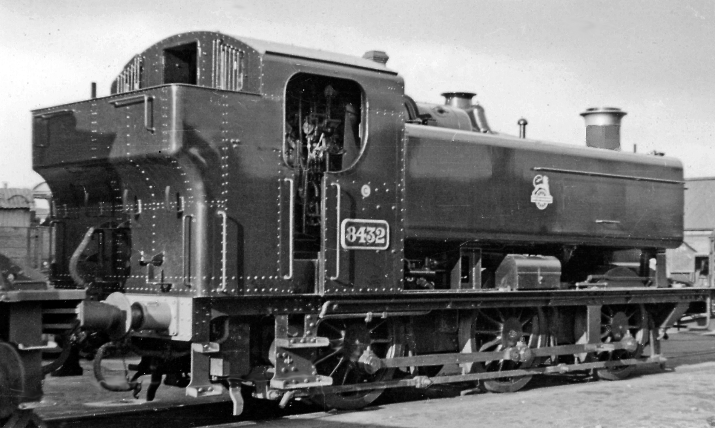 Swindon Works: a new '9400' class 0-6-0PT. Just arrived in February 1953 from the Bagnall Works at Stafford is No. 8432, destined to last only until July 1959!